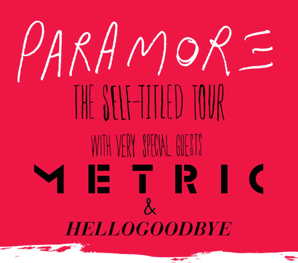 Paramore Self Titled tour logo.